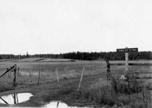 Weippe Prairie: view southwest from southwest corner of town of Weippe, Idaho, toward site of westernmost Nez Perce 1805 village. JPG photo cropped to remove border.